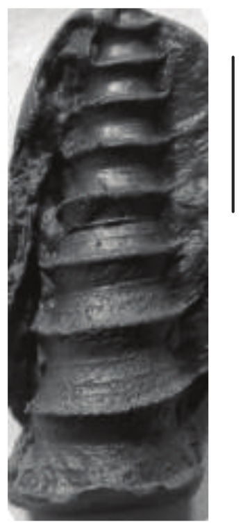 Black-and-white photo of Palmerella ranikoti PG/K/Cr 65. Scale bar is 10 mm.